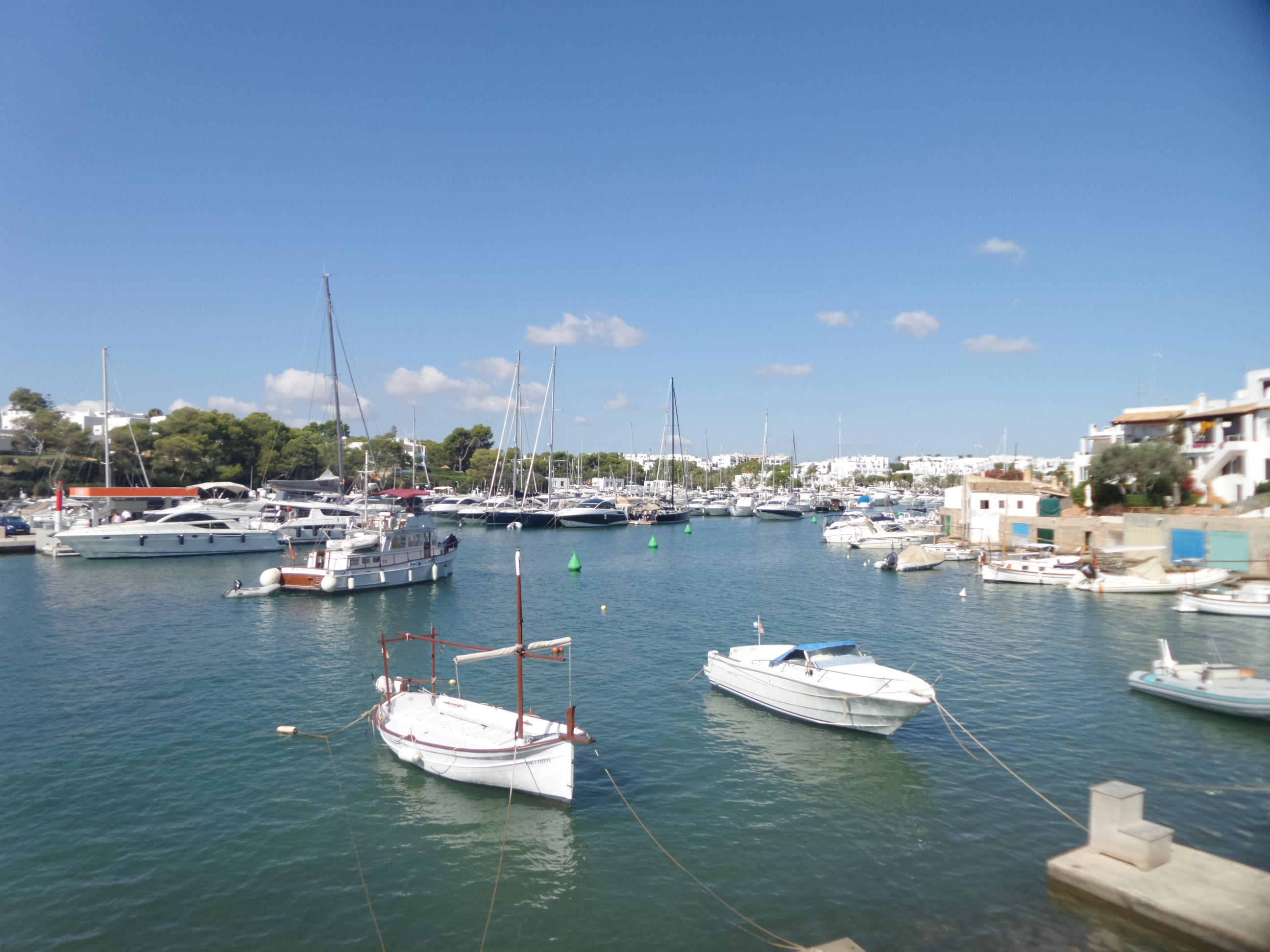 Cala Llonga (Bay) and Port in Cala d’Or (Village) Аҧсшәа: Cala Llonga (Cala) e Port esportivo en Cala d’Or (Municipio)